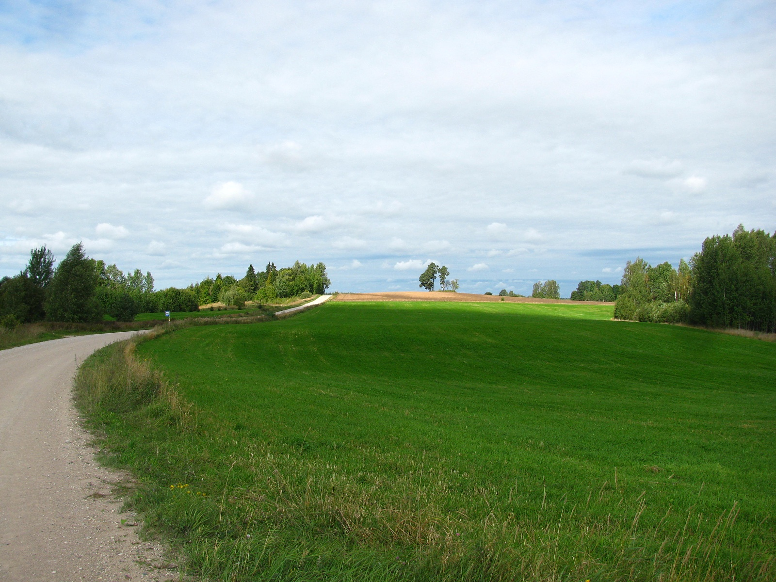 Piiri-Jeti road, Aitsra